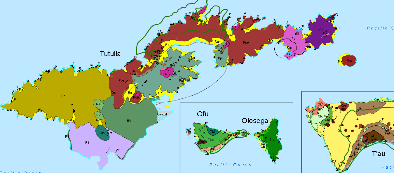 Samoa geologic map, where Volcanic Series are labeled as: Po for Taputapu, Rll and Rlt for Leone (Rla is an ash cone and Rlc is a cinder cone), Pa for Alofau, Pol for Olomoana, Ppe for Pago, and Ppi for Pago Intra-Caldera. Pt are trachyte plugs and dikes, such as Matafao, Vatia, and Pioa ("the rainmaker"). Ra depicts beach sand and alluvium, while the green line is the national park boundary, and the dashed line is the boundary of the caldera.